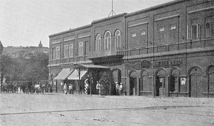 House of Gubernator of Baku